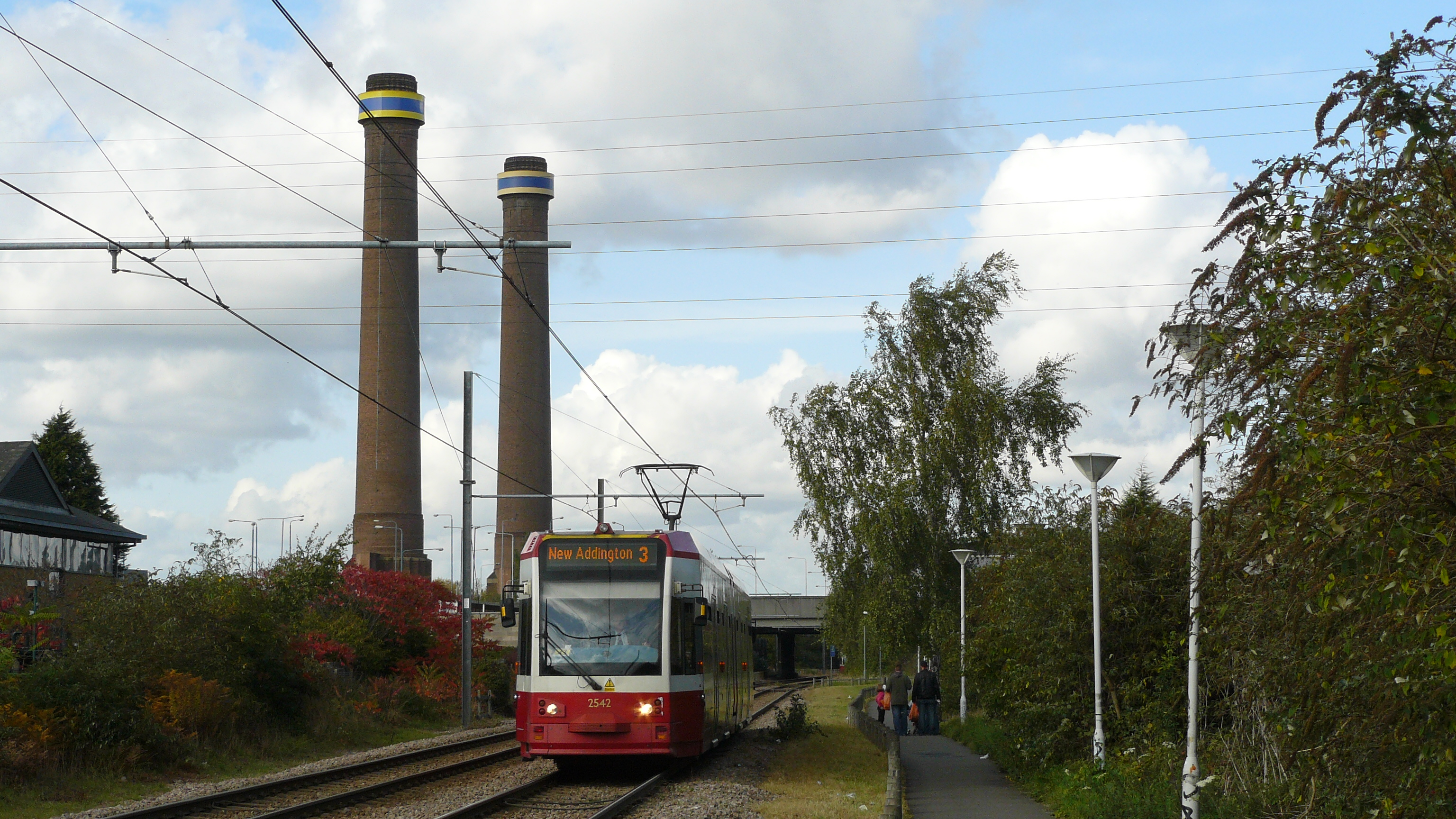 Tram Approaching Waddon Marsh Stop